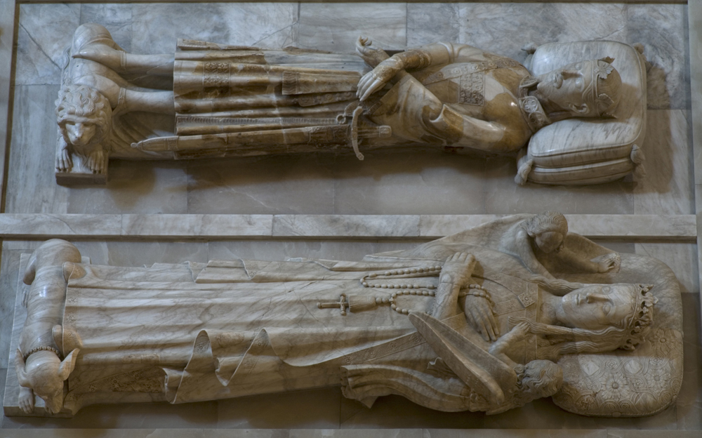 John I of Aragon and his wife Violante